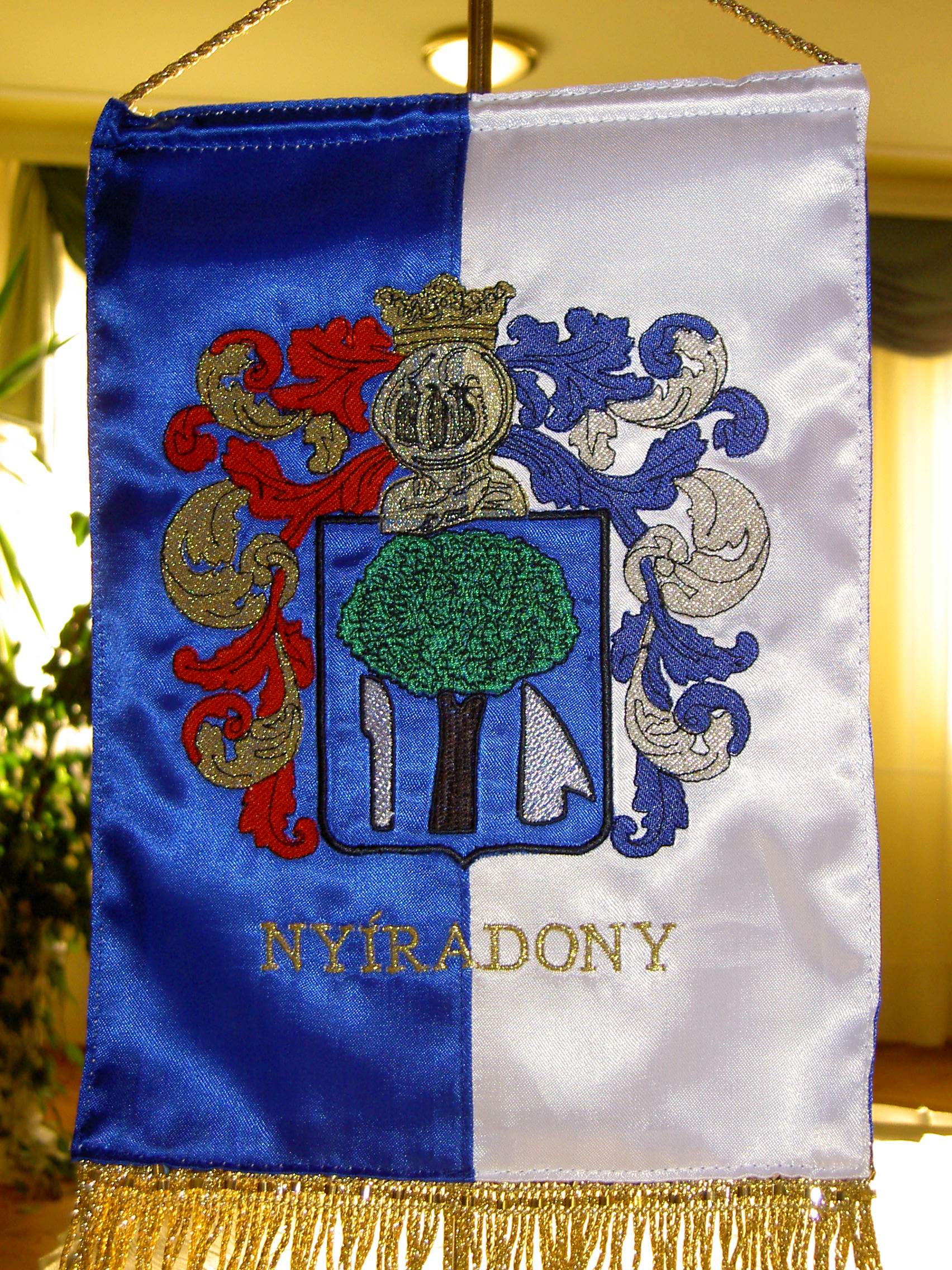 Flag of Nyiradony